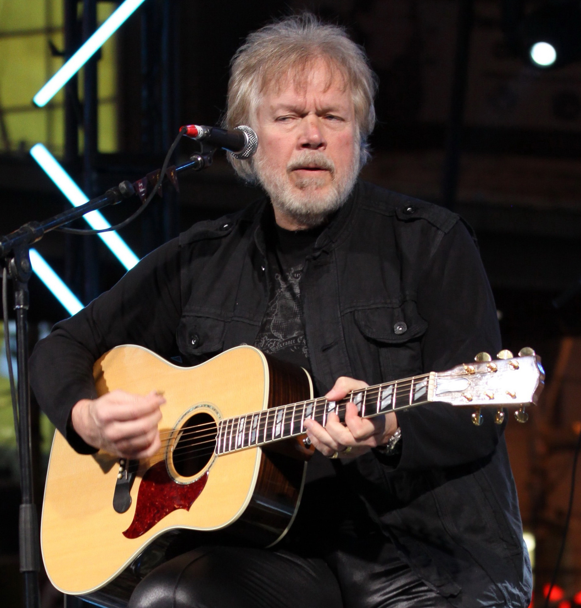 Randy Bachman, doing an accoustic performance during his set, on opening night of the Luminato festival in Toronto, Canada. This is just an early sampling, of what is to come.